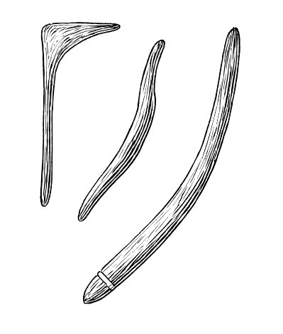 line art drawing